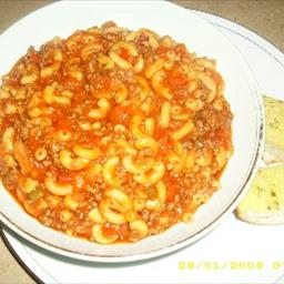 Goulash_from_usa